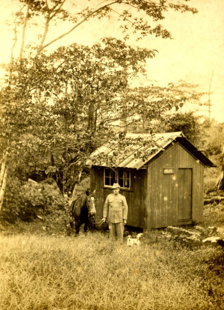 The first officer to be stationed at Millaa-Millaa, Constable Daniel Dwyer, standing beside his horse, with his dog at heel, 1922. Millaa-Millaa police station opened in 1922, has always been a single officer station and is currently staffed by a Senior Constable.